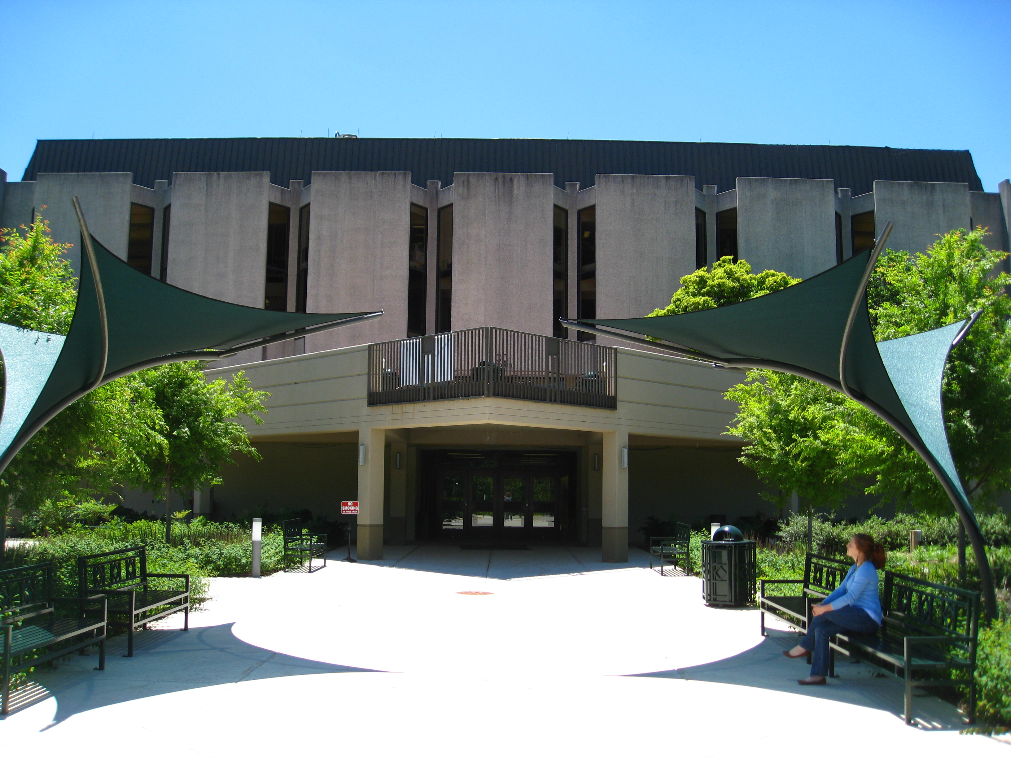 A picture of the entrance to the CG building at Northern Virginia Community College (Annandale Campus).